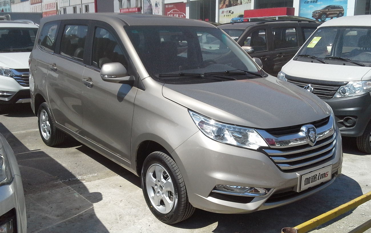 Gratour im6 photographed in Beijing, China.